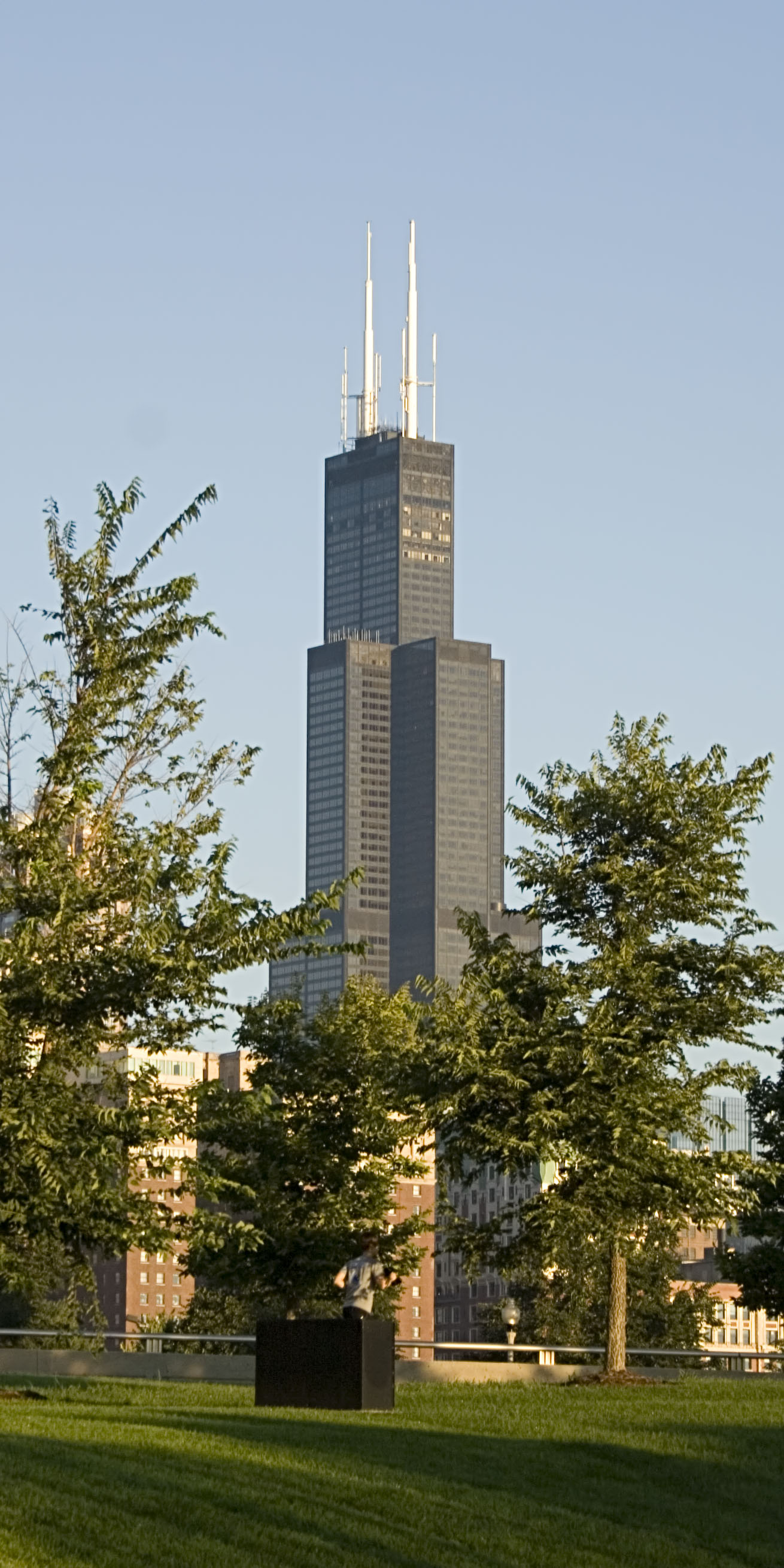 The Sears Tower, as seen from the Chicago lakeshore southeast of the Tower